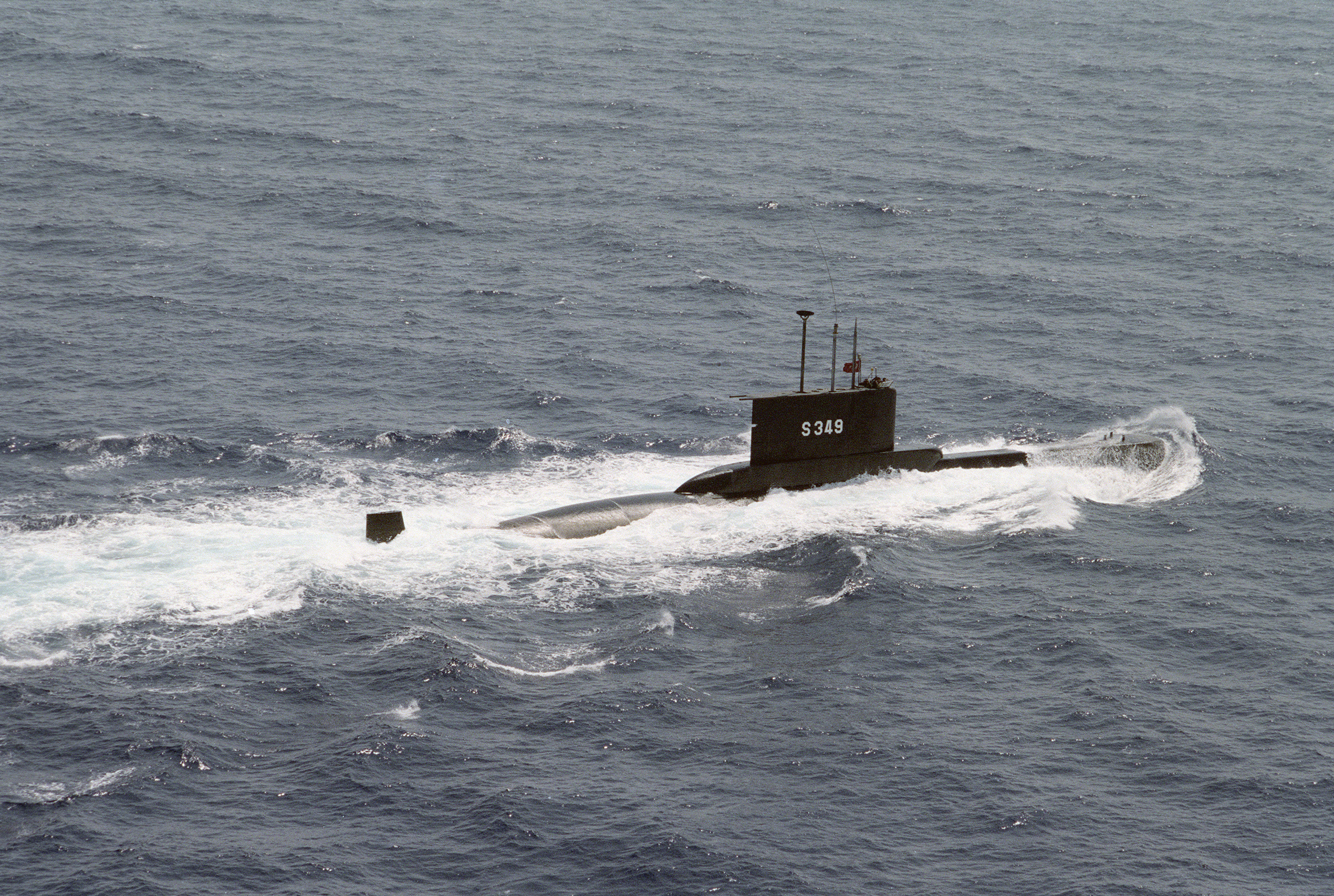 A starboard view of the Turkish submarine BATIRAY (S 349) underway